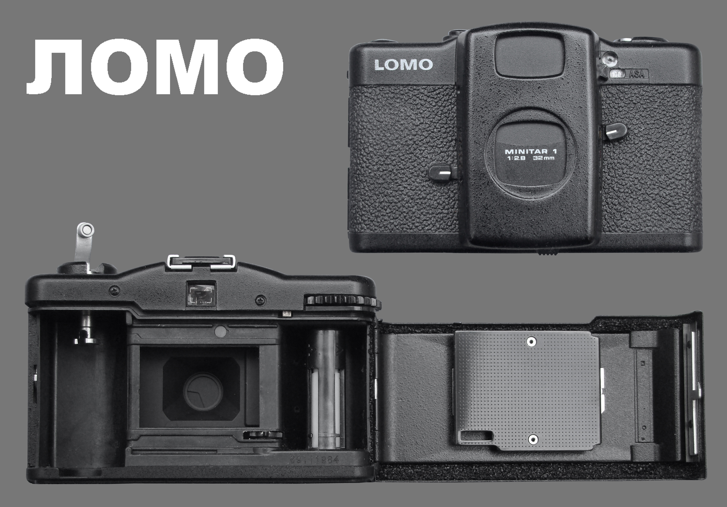 Lomo camera, bought November 1989 in East-Berlin